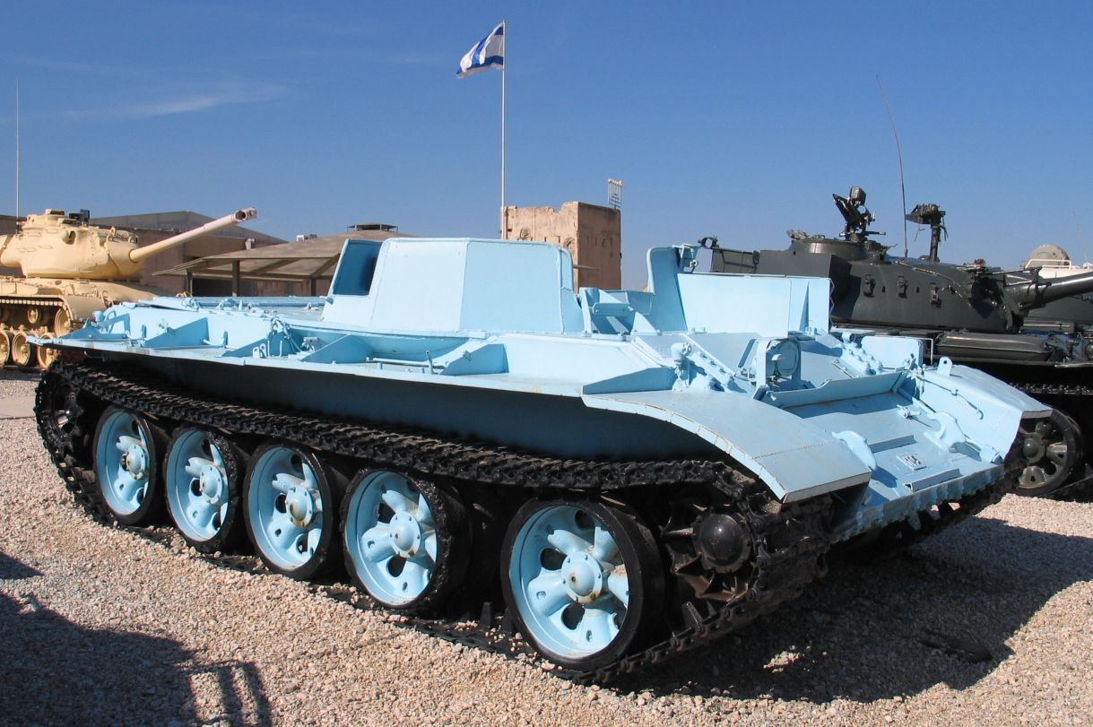 Description: Improvised APC based on T-54 tank in Yad la-Shiryon Museum, Israel. 2005. The vehicle was used by the South Lebanon Army. Source: Photo by me, User:Bukvoed.